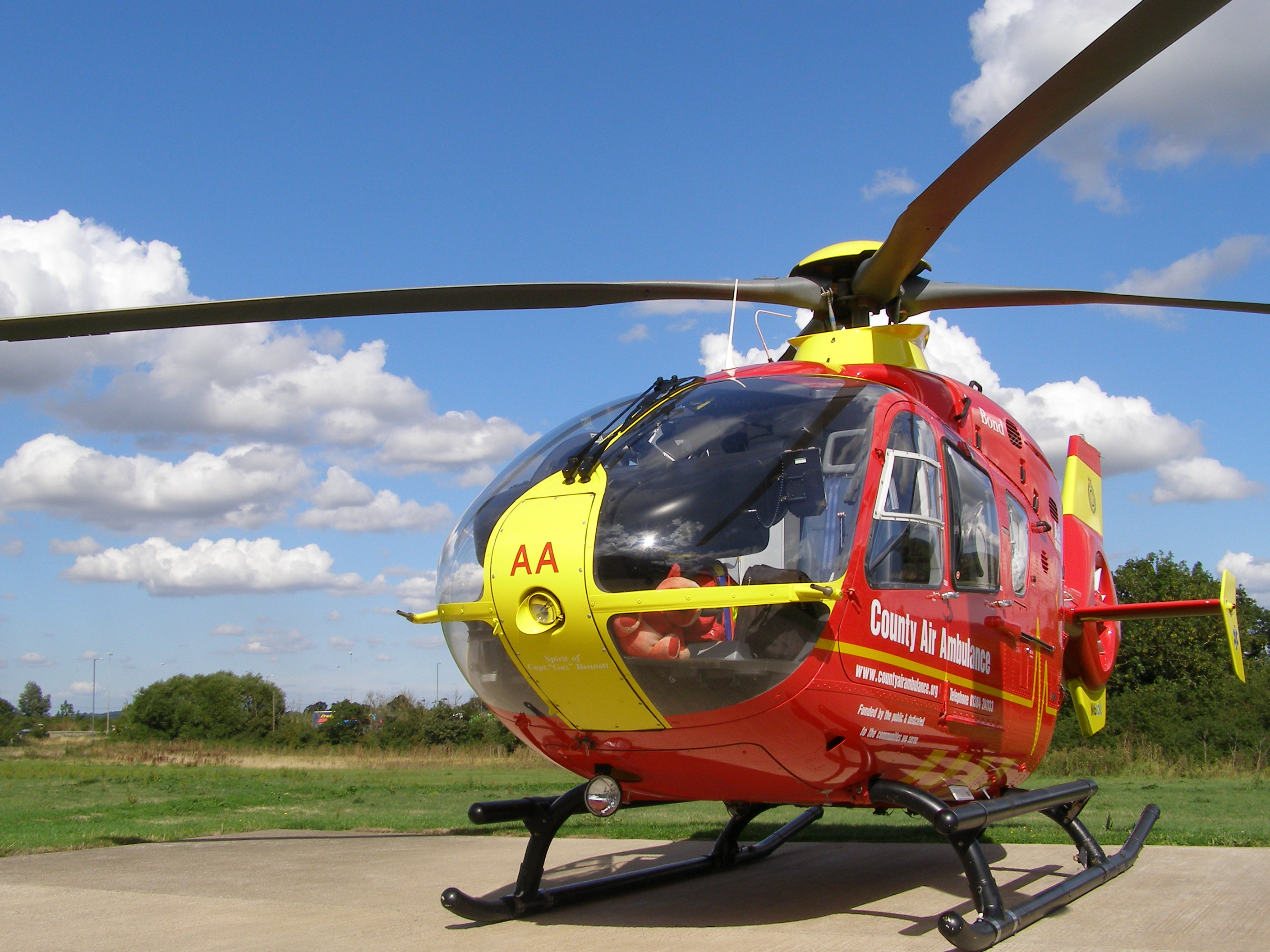 G-HWAA, based at Strensham Services on the M5.